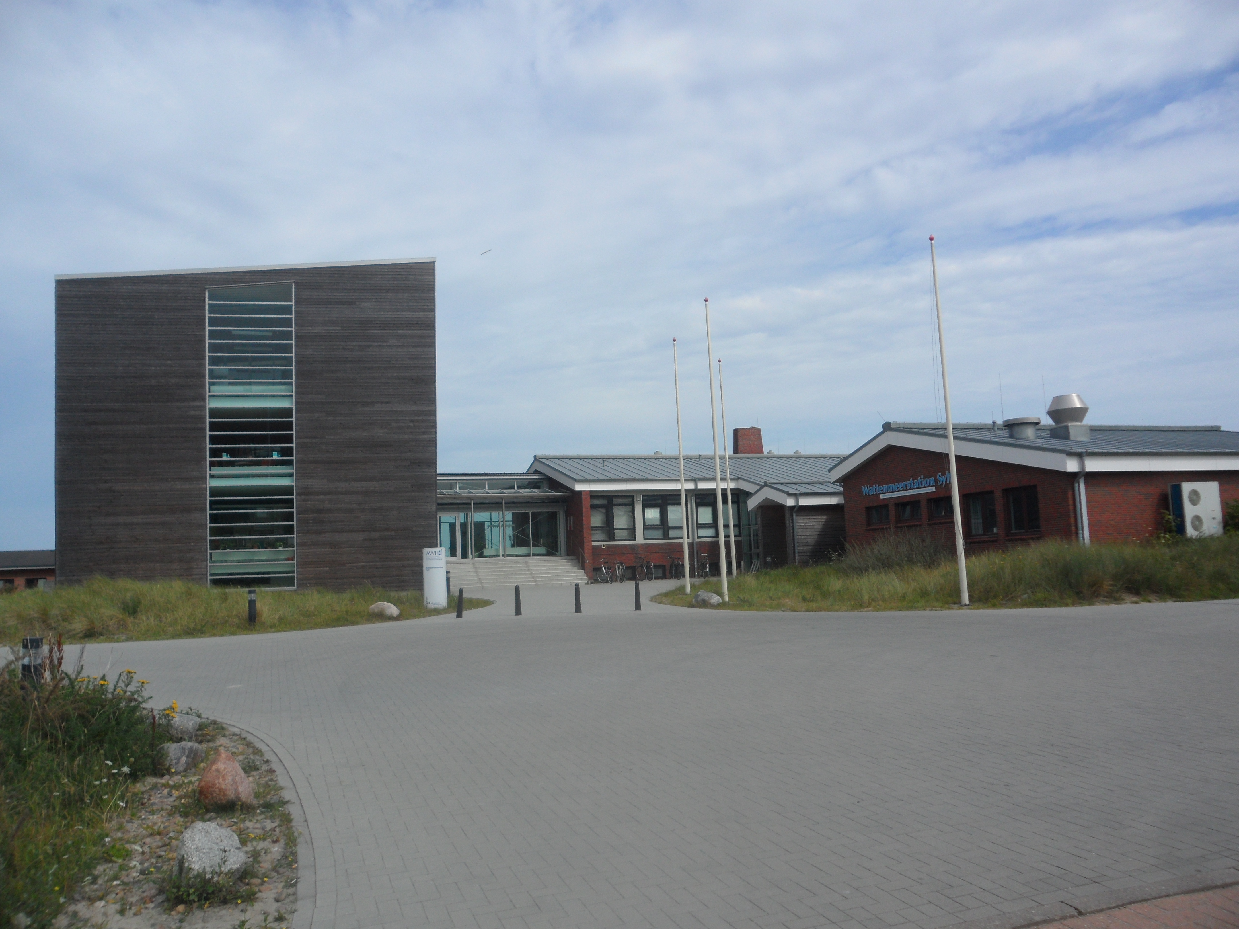 Wattenmeerstation, part of the Alfred Wegener Institute for Polar and Marine Research in List on island Sylt (Germany)